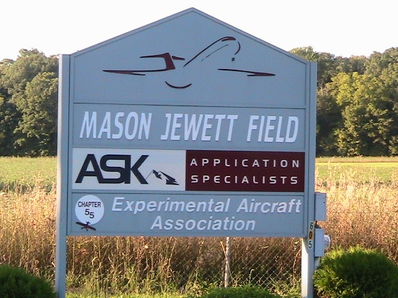 Jewett Field Mason, Michigan entrance sign from Eden Road